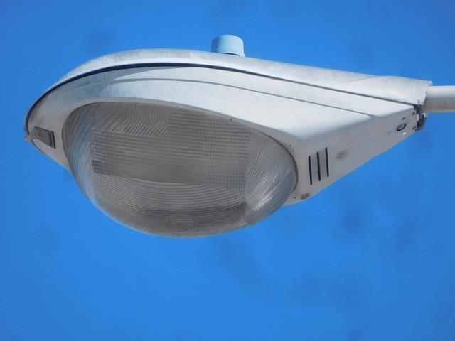 History of street lighting : General Electric, M1000 (700–1000 watts) 1960s redesign